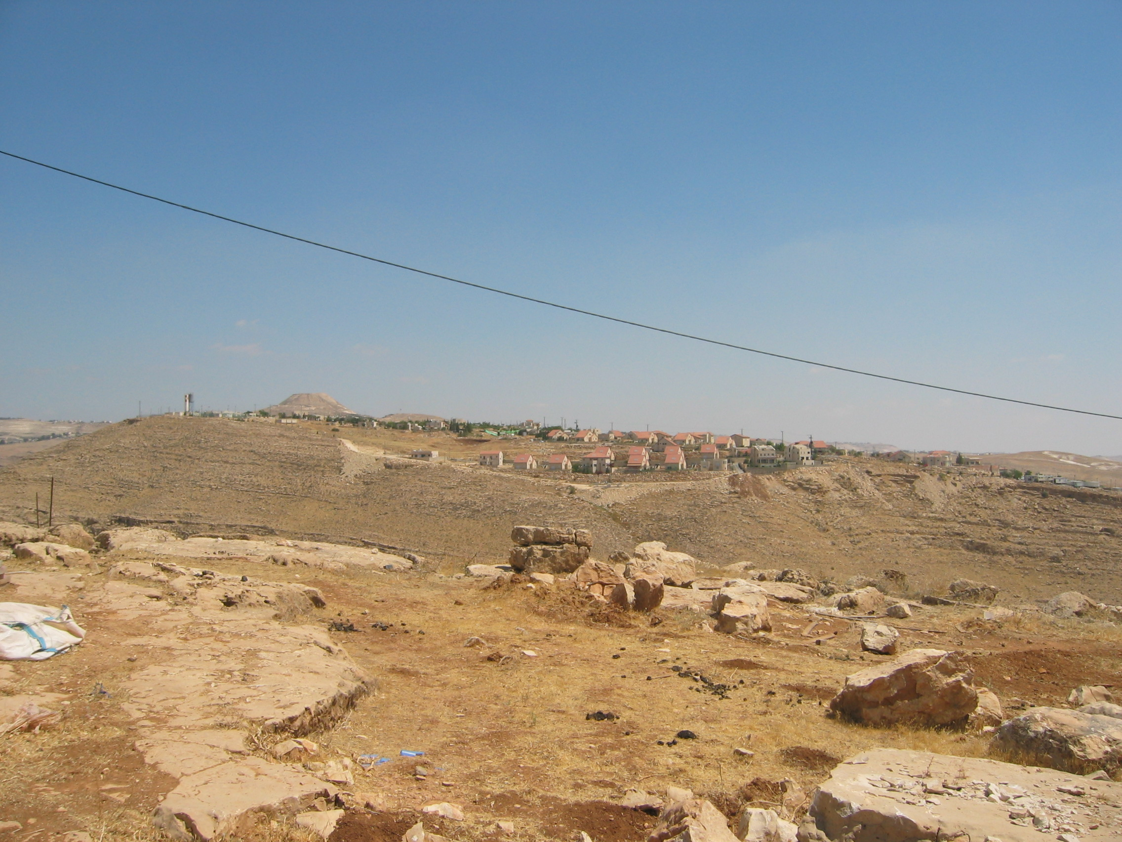 The Tekoa settlement and the Herodion mountain in the background.